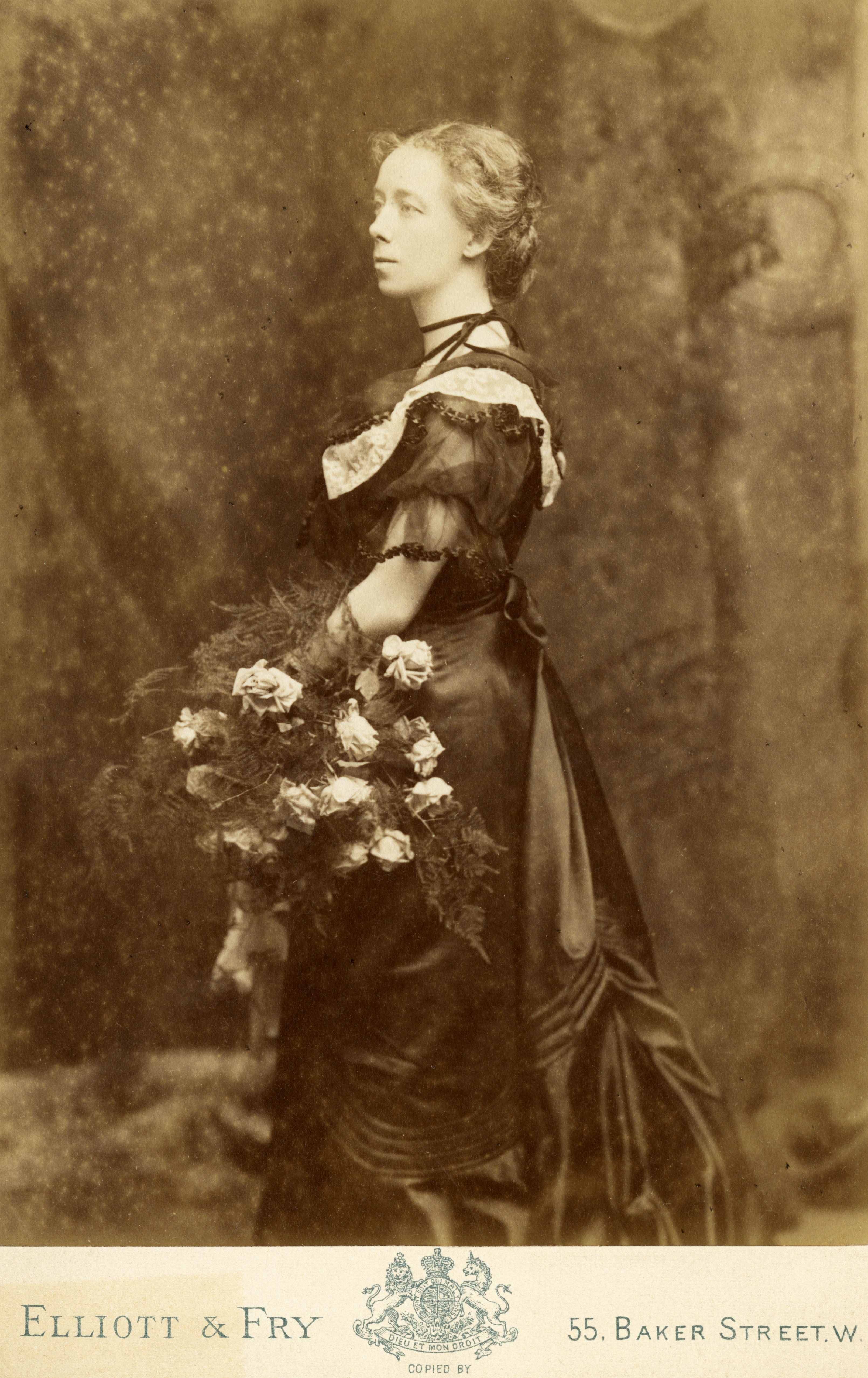 7AMA/O/02 Photograph, printed, monochrome studio portrait full length, left profile, Adelaide standing holding a bouquet of flowers, mounted on card